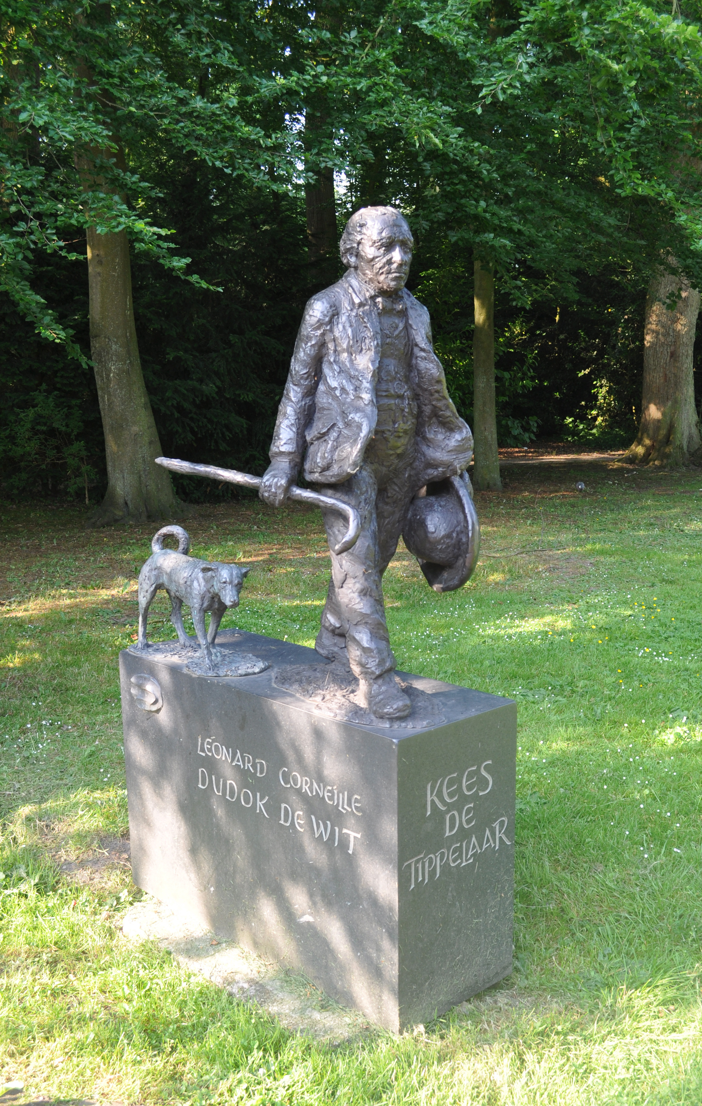 Statue of L.C. Dudok de Wit aka "Kees de Tippelaar", placed at Park "Boom en Bosch" in Breukelen. the original from 1991 was stolen in 2007 except for the dog. Since there was no mold of the original, Taeke created a new statue.